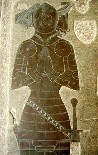 The funerary brass of Sir John Drayton (died 1417) of Nuneham Courtenay, Oxfordshire, in Dorchester Abbey, Dorchester on Thames, Oxfordshire, England, UK. Drayton was the third husband of Isabel Russell, the second daughter of Sir Maurice Russell (2 February 1356 – 27 June 1416), a High Sheriff of Gloucestershire, by his first wife Isabel Childrey.